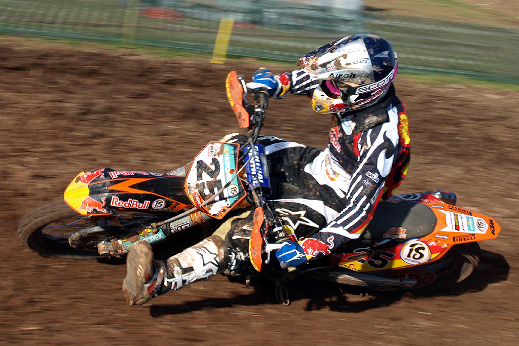 Maximilian Nagl (Germany, KTM) at Red Bull FIM Motocross of Nations 2008, Donington Park (England)